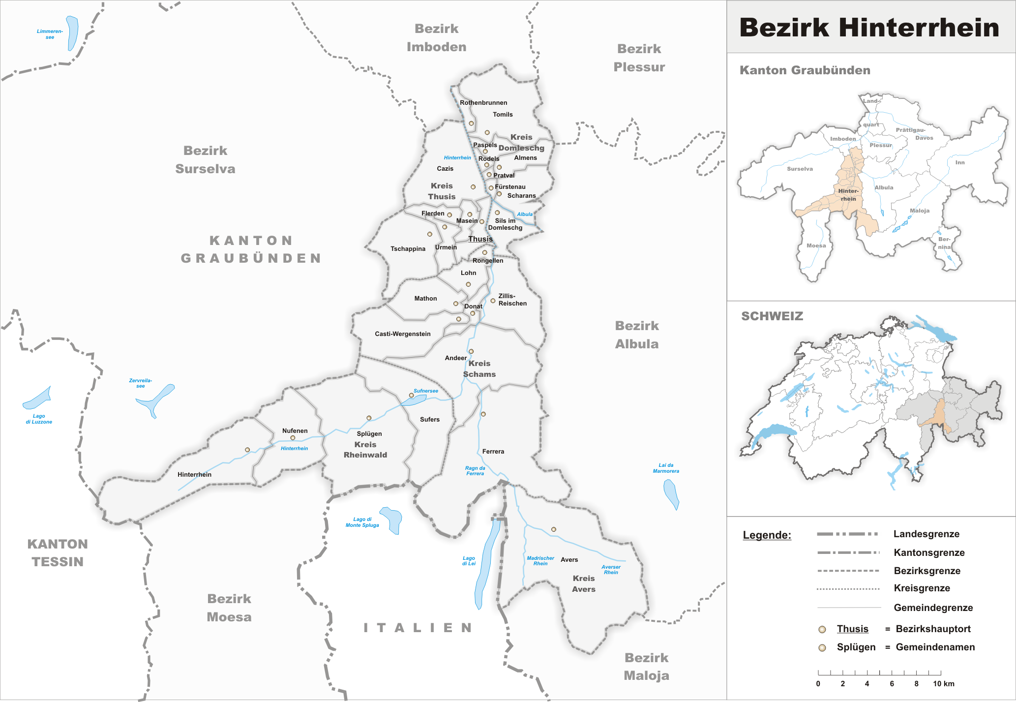 Municipalities in the district of Hinterrhein to 2010